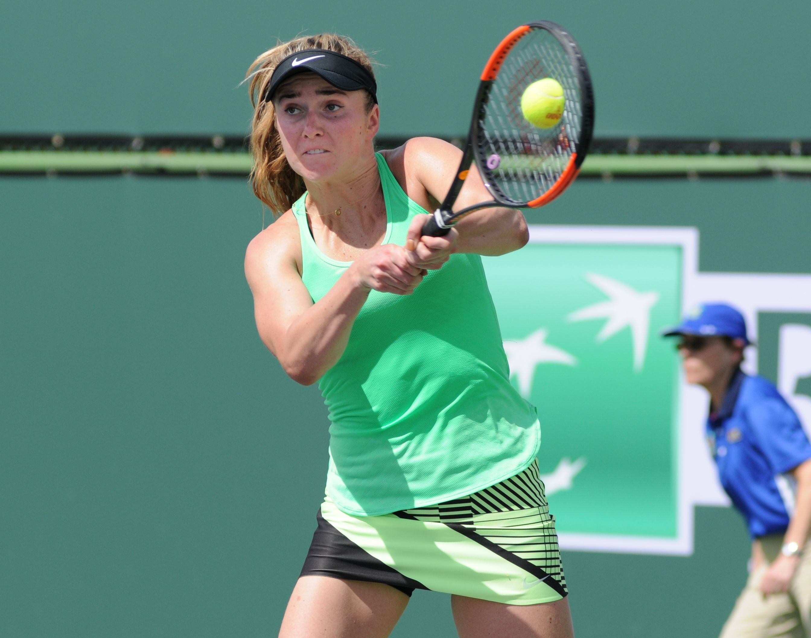 Elina Svitolina at the 2017 BNP Paribas Open